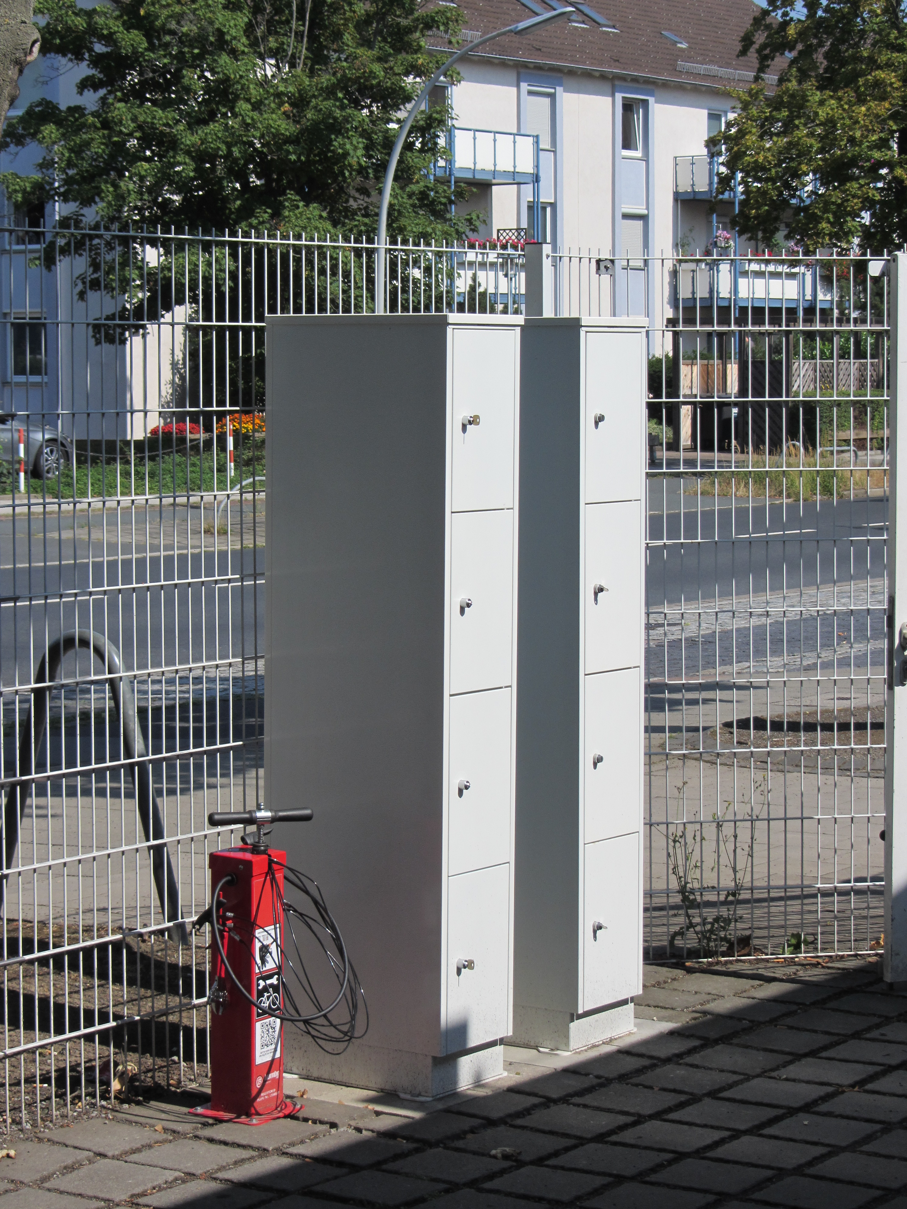 safe deposit charging boxes for e-bike batteries at Siemens Mobility Braunschweig